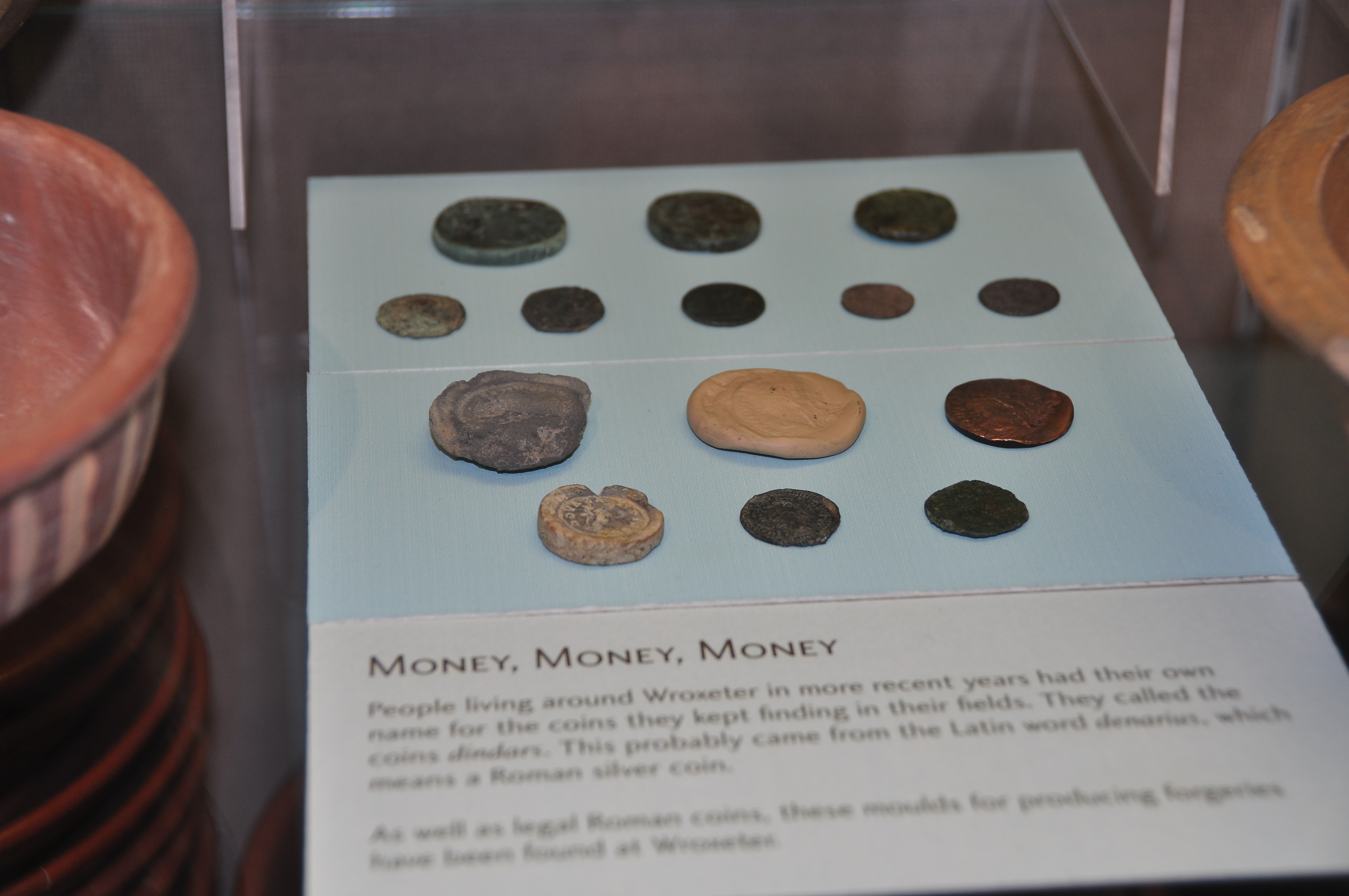 Artifacts in museum at Wroxeter